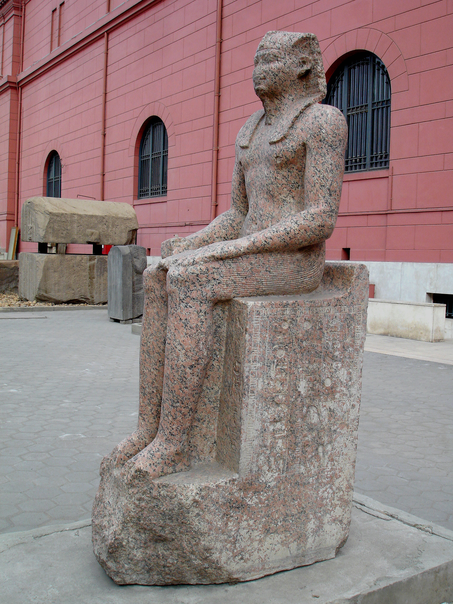 Statue of Sehetepibre Amenemhat I, Egyptian Museum Cairo.